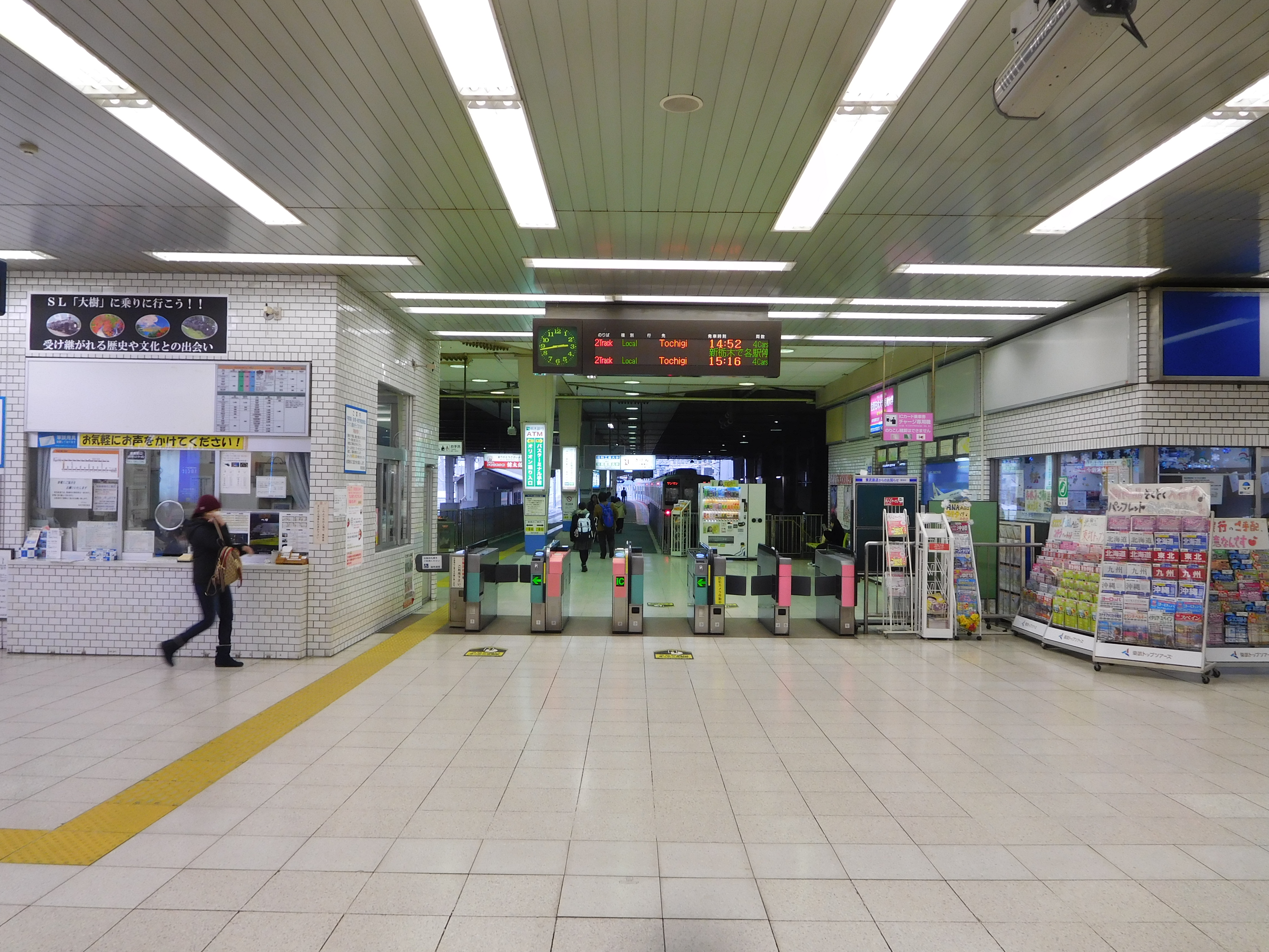 This is gates of Tobu-Utsunomiya station in Utsunomiya, Tochigi, Japan.